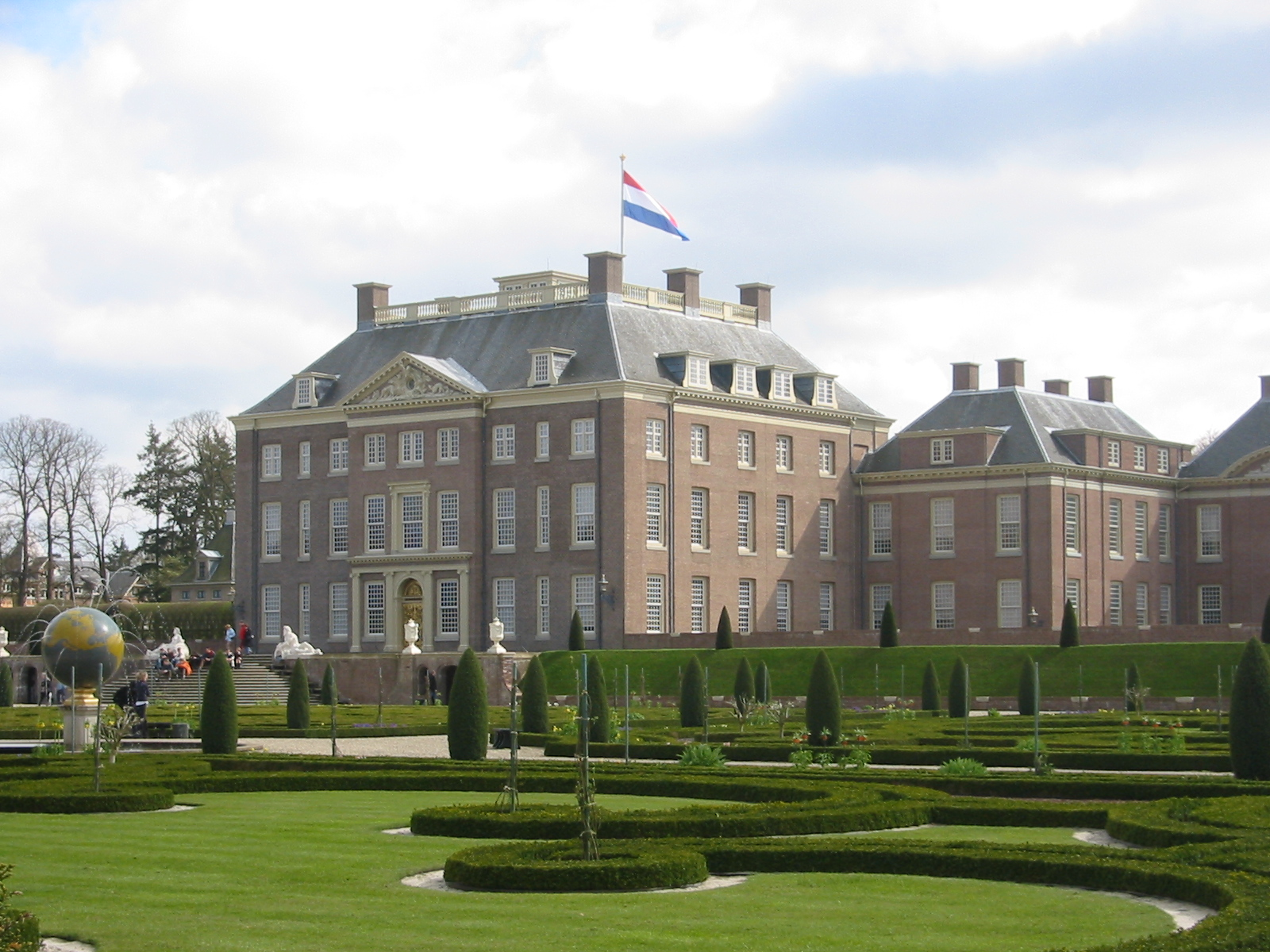 Castle "Het Loo" by Apeldoorn, The Netherlands